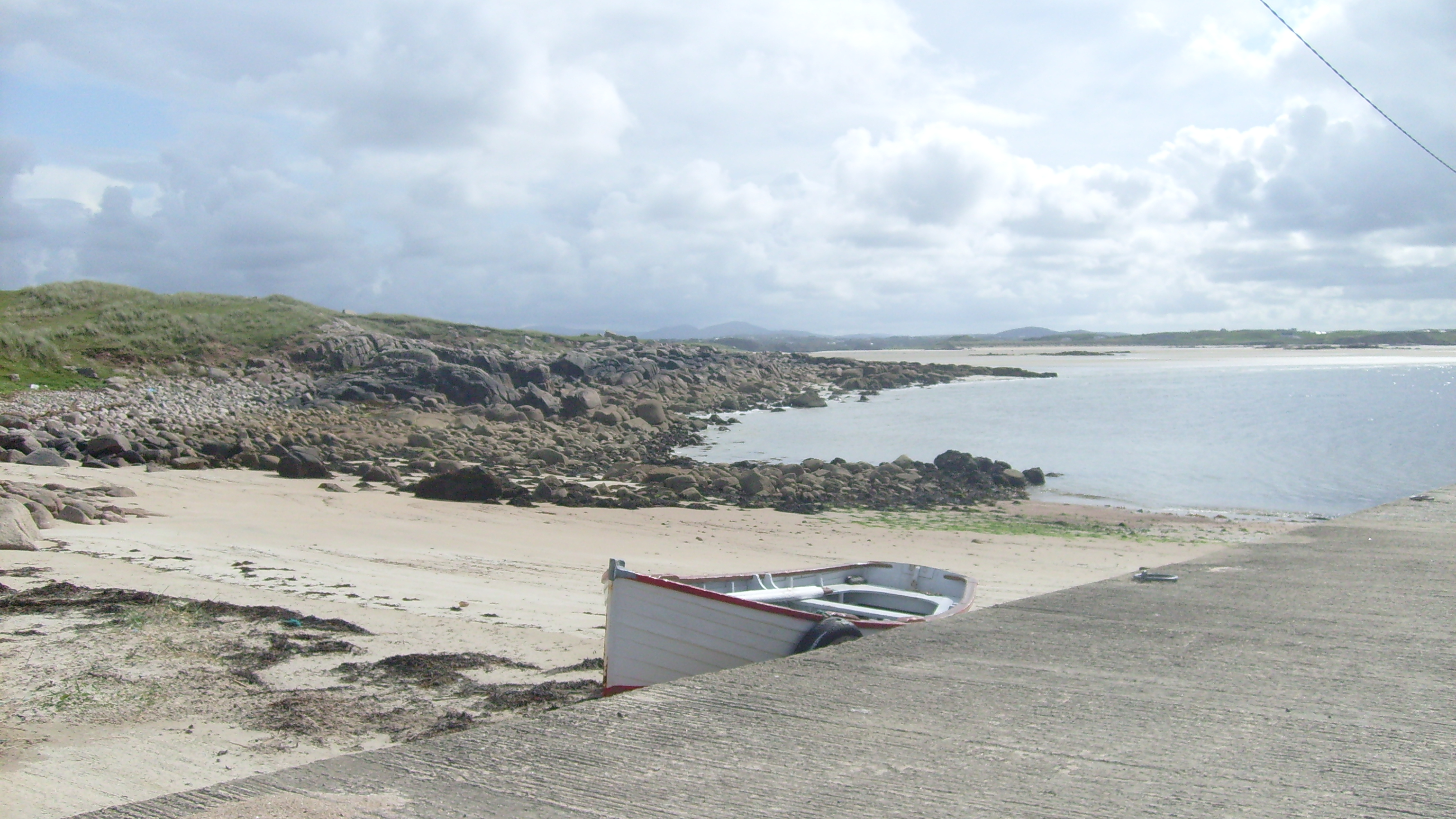 Boat at Magheragallon Pier, Gweedore, Co Donegal, Ireland